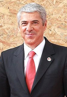 Before the meeting of the NATO-Russia Council, Prime Minister of Portugal José Socrates.